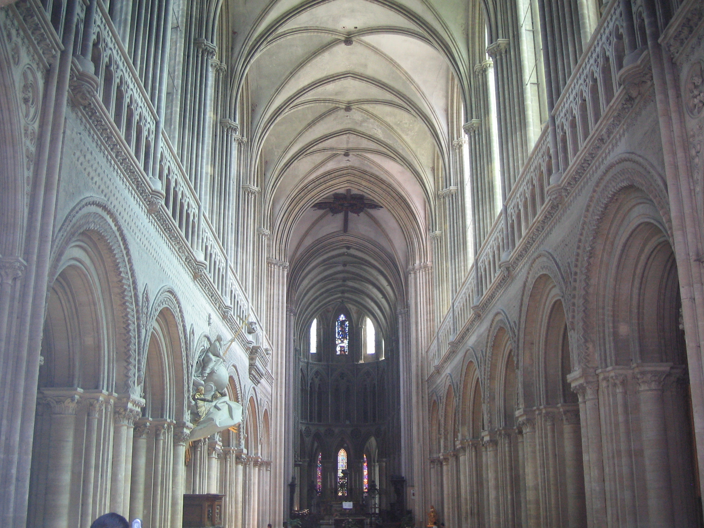 This image was originally posted to Flickr by Baston at It was reviewed on 21 October 2009 by FlickreviewR and was confirmed to be licensed under the terms of the cc-by-2.0.